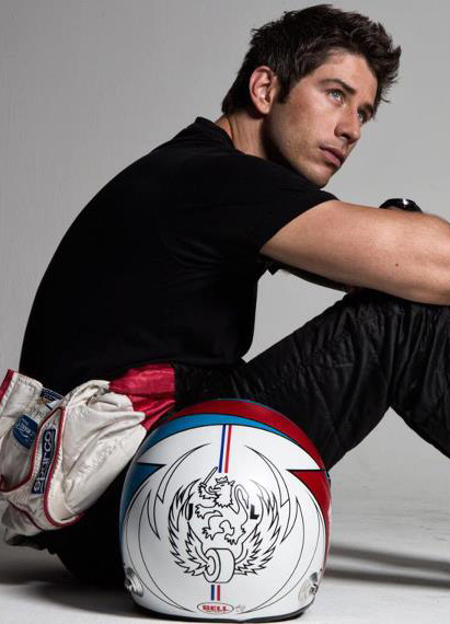 Photo of race car driver Arie Luyendyk, Jr.